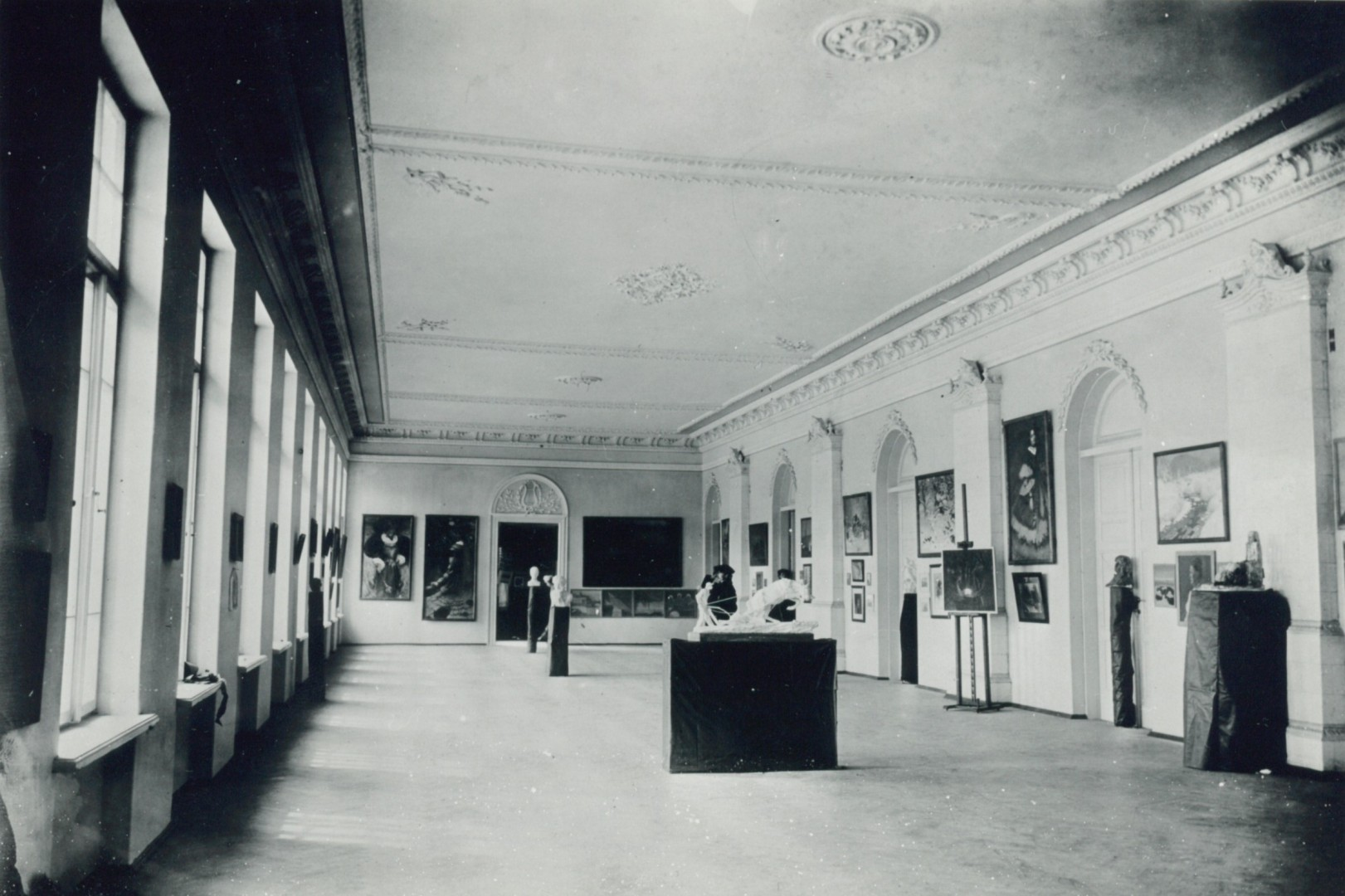 3rd Lithuanian Art Exhibition organized by the Lithuanian Art Society